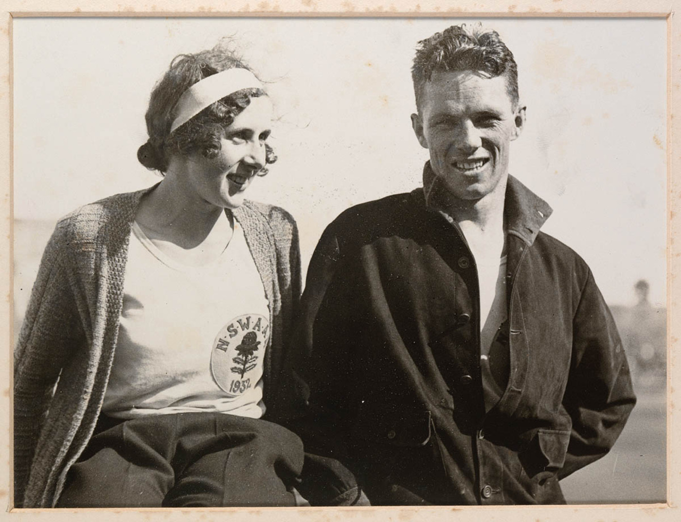 Australian Sprinters Eileen Wearne and James Carlton in 1932